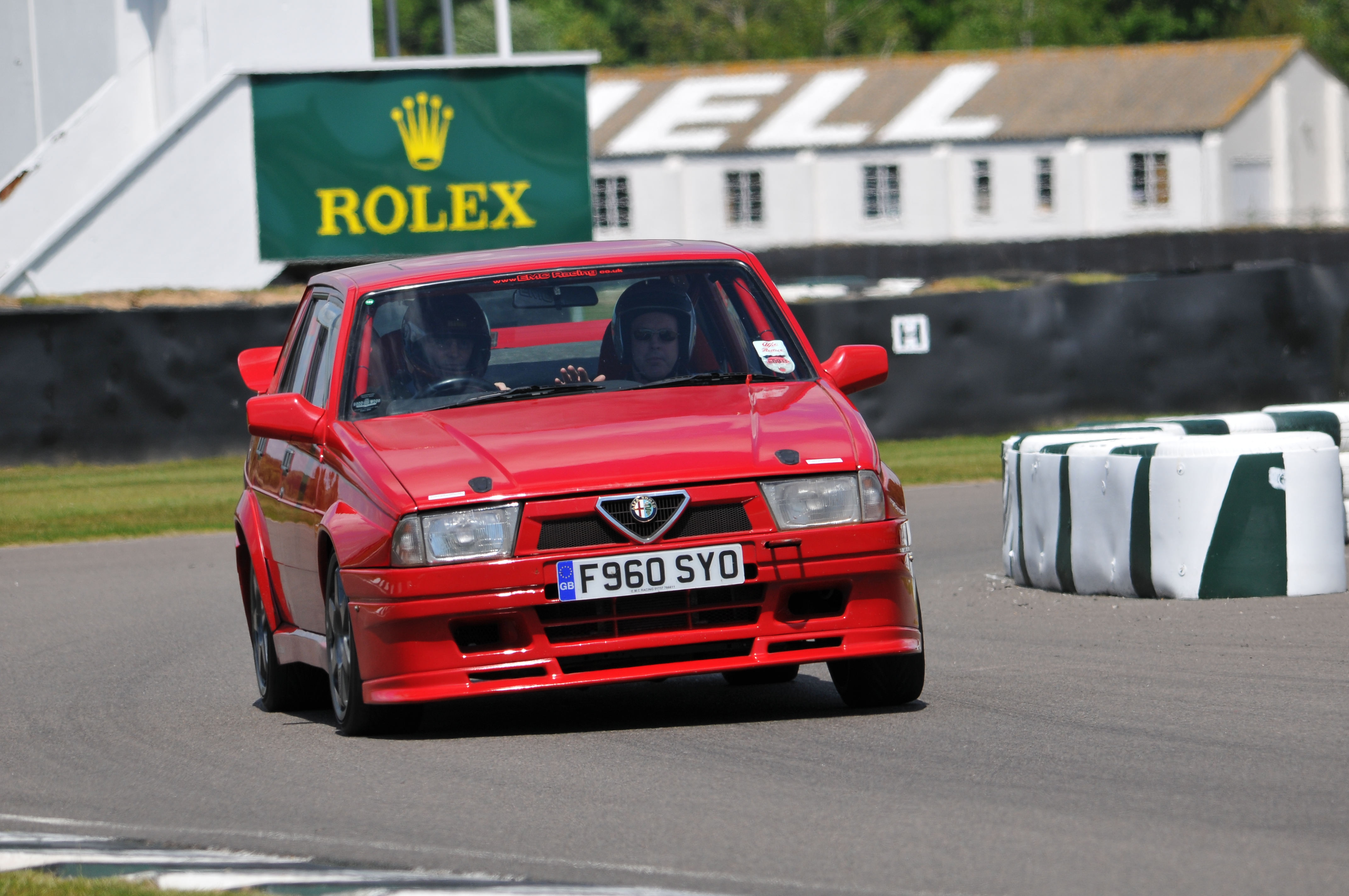 Lancia Motor Club Goodwood Track Day May 21st 2011